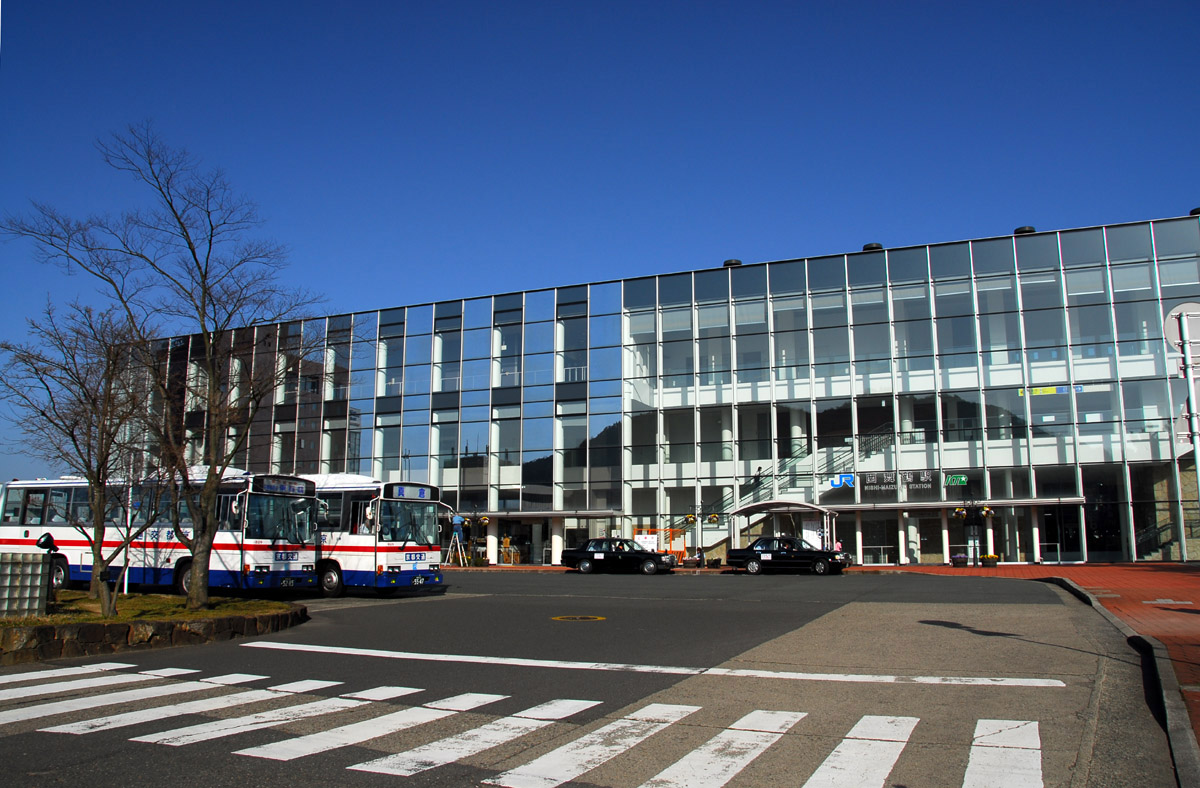 Nishi-Maitsuru-Station